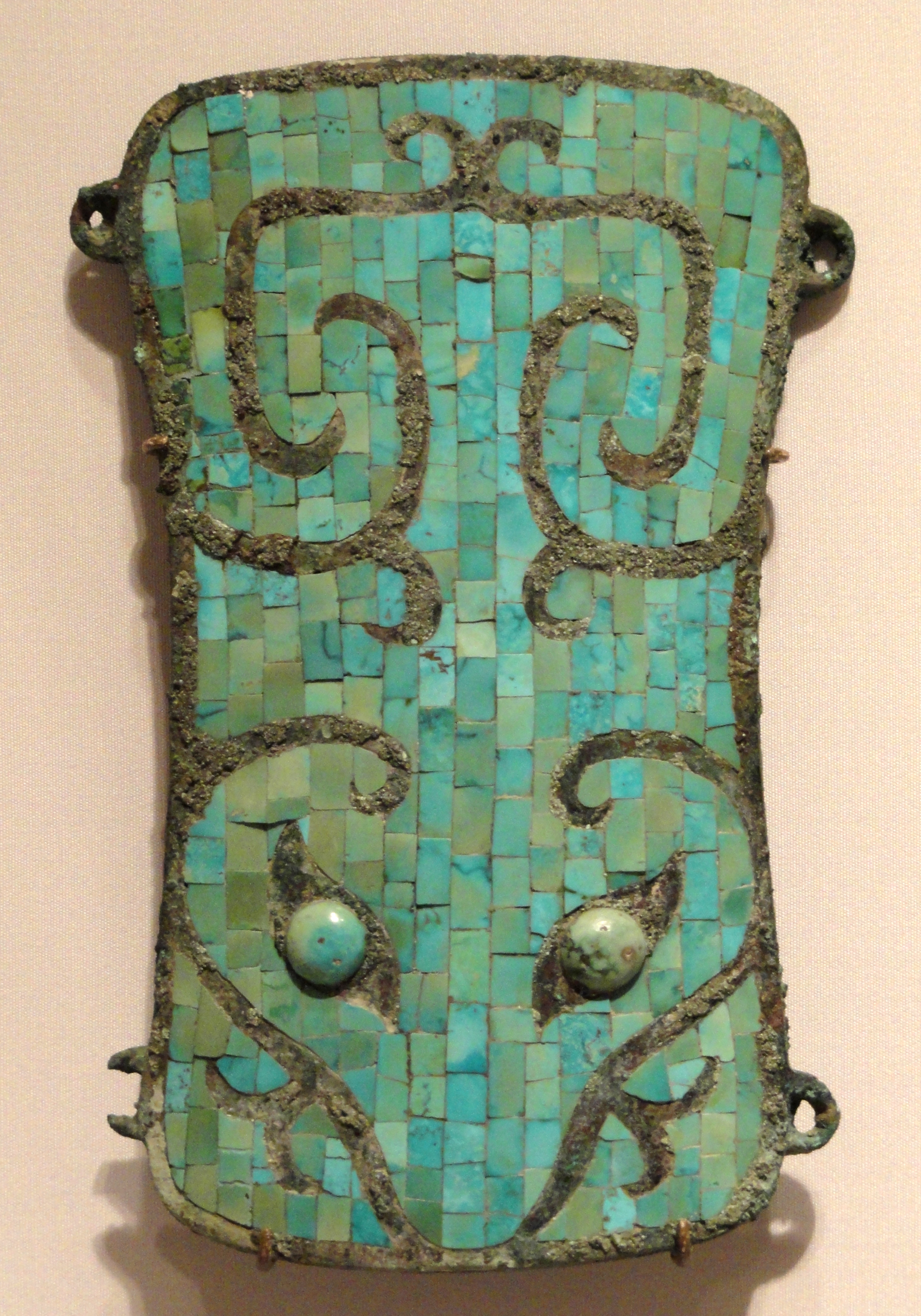 Exhibit in the Sackler Museum, Harvard University, Cambridge, Massachusetts, USA.